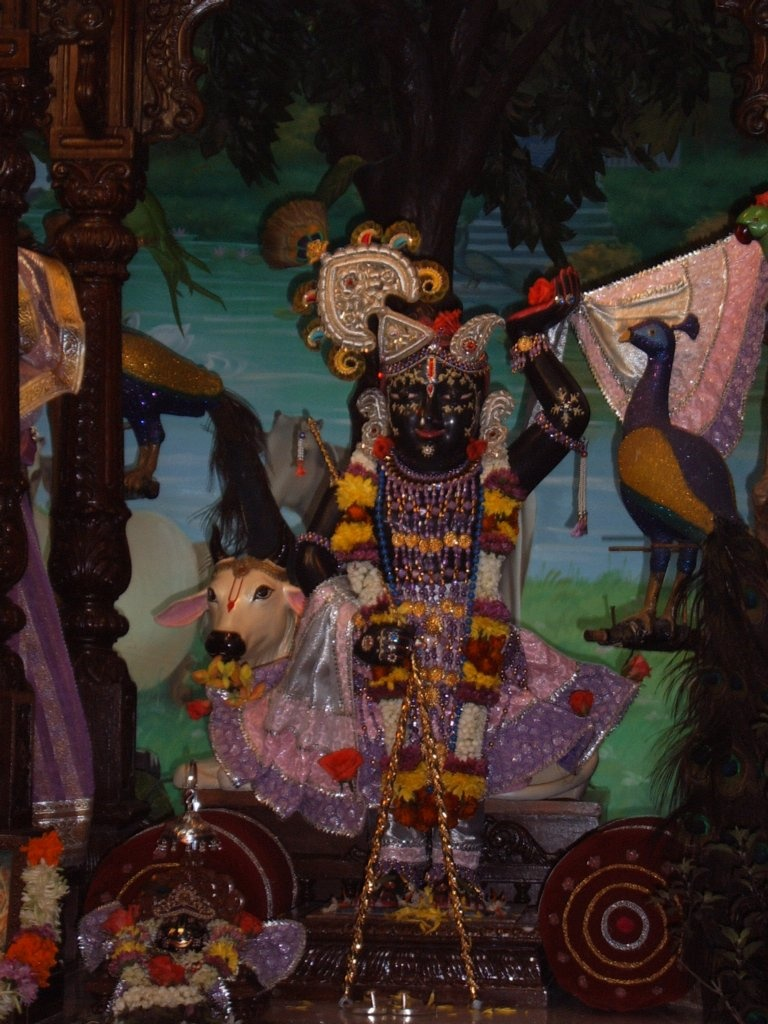 Sri Nathji Krishna Deity